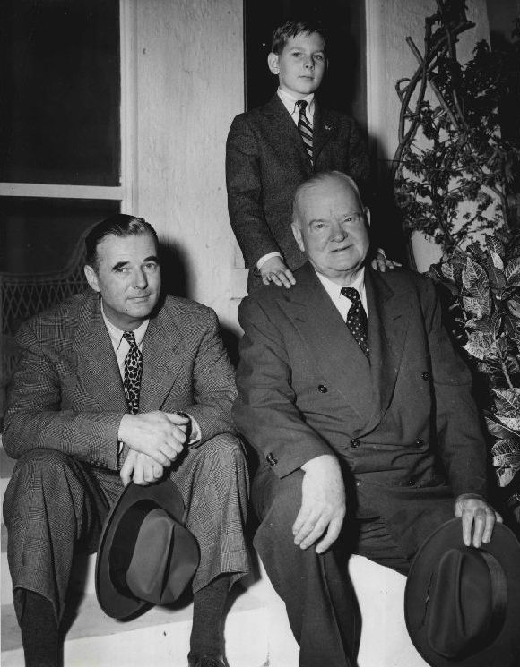 Photo of Hoover men in the Flamingo Yacht Club (located in Florida): (top) Andrew; (bottom) Allan, Herbert Sr.